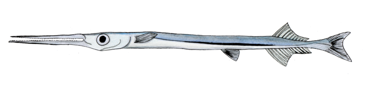 Hand drawn and coloured Diagram of Keeltail needlefish. Platybelone argalus. Based on fishbase images